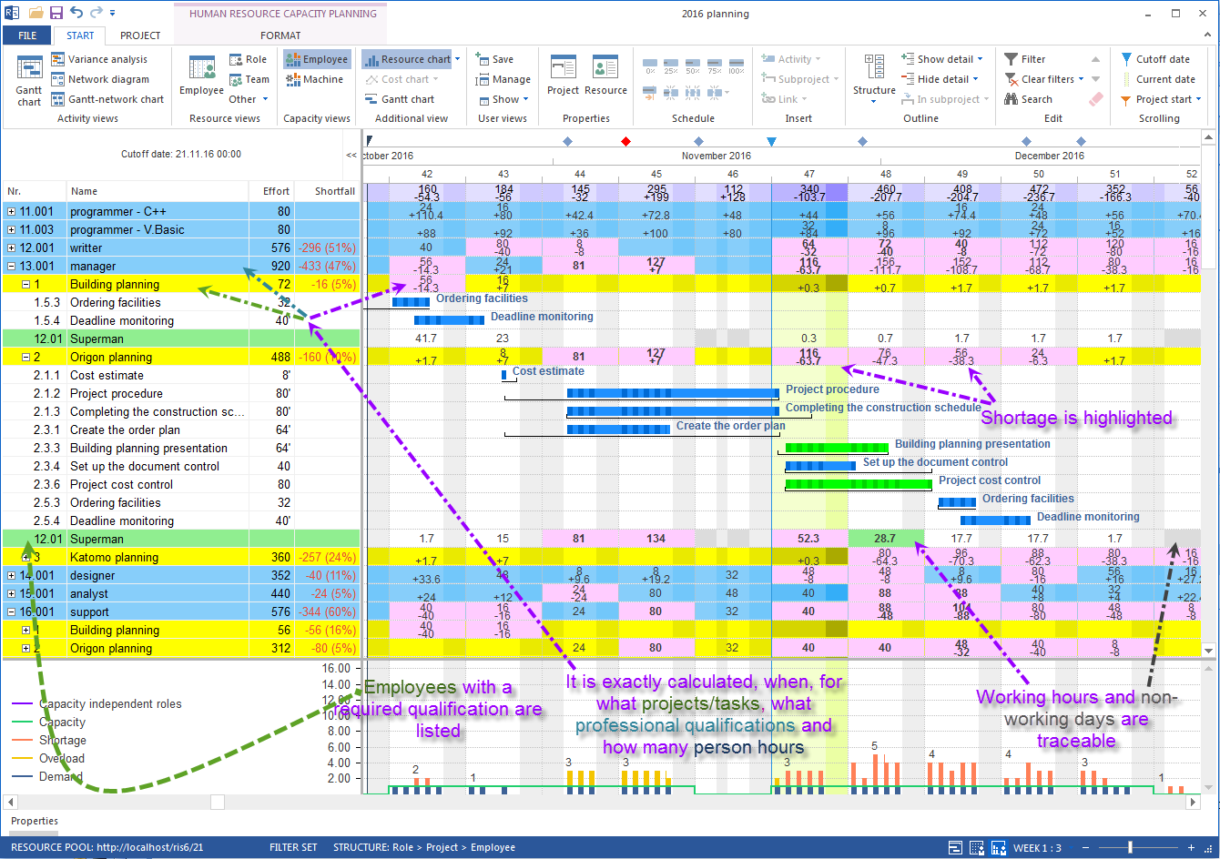 Rillsoft Project showing capacity planning